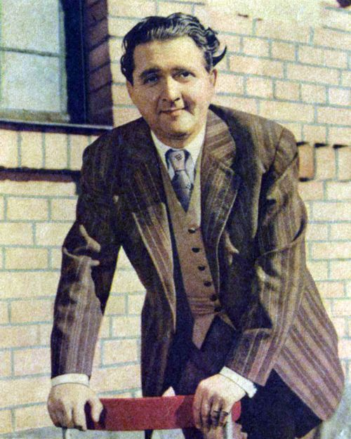 Swedish actor Stig Järrel (1910-1998)